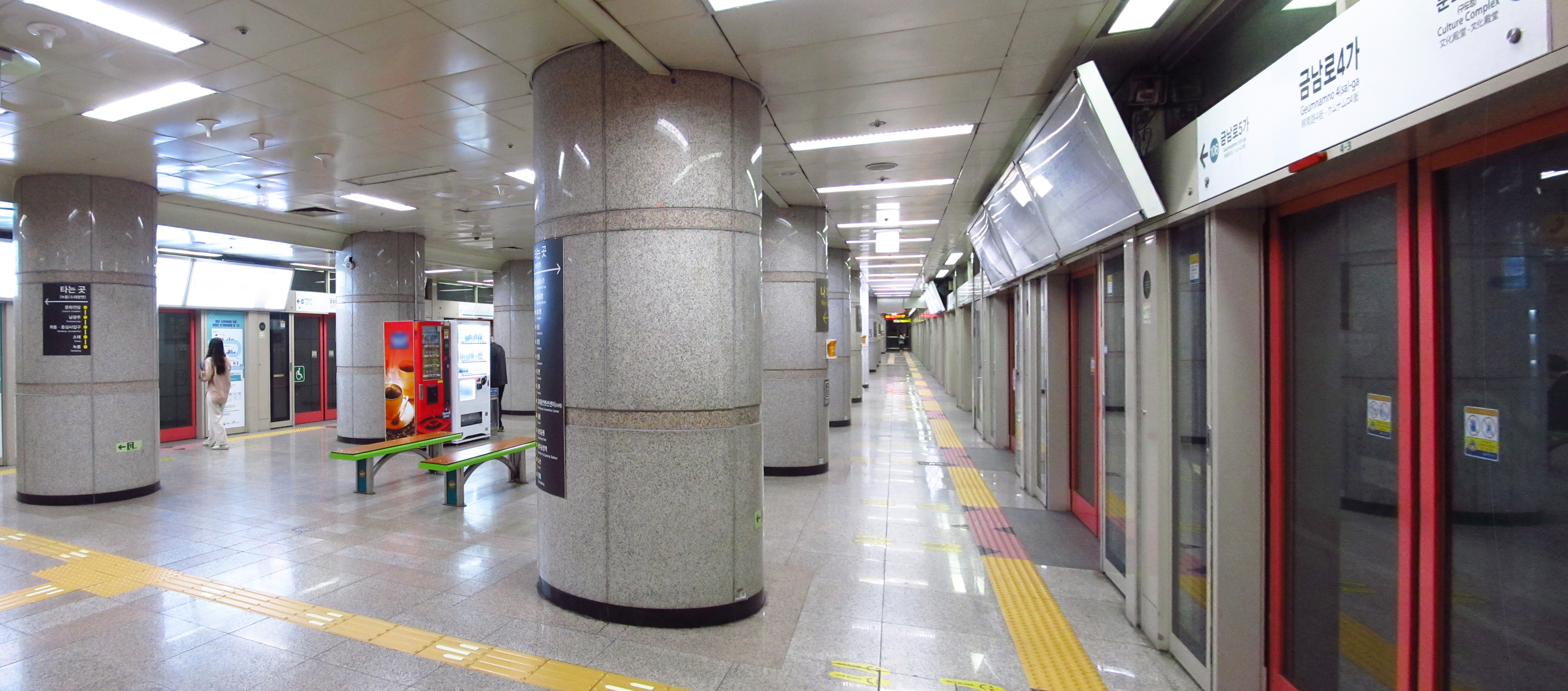 The platform at Geumnamno 4-ga Station on Gwangju Metro Line 1 in Dong-gu, Gwangju, Republic of Korea(South Korea)